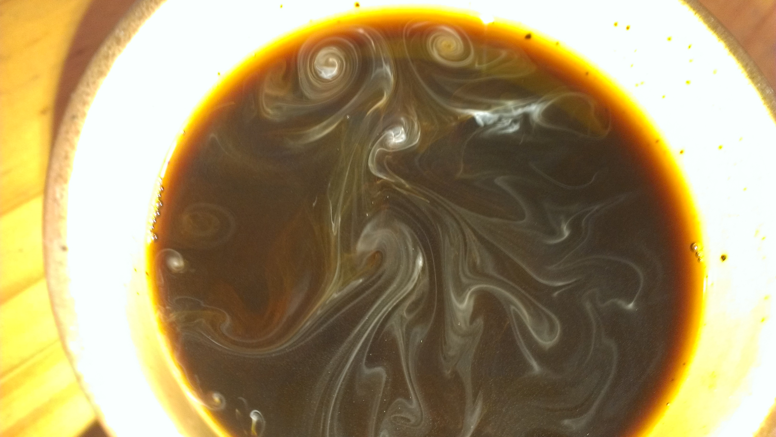 Milk vortices in a cup of coffee